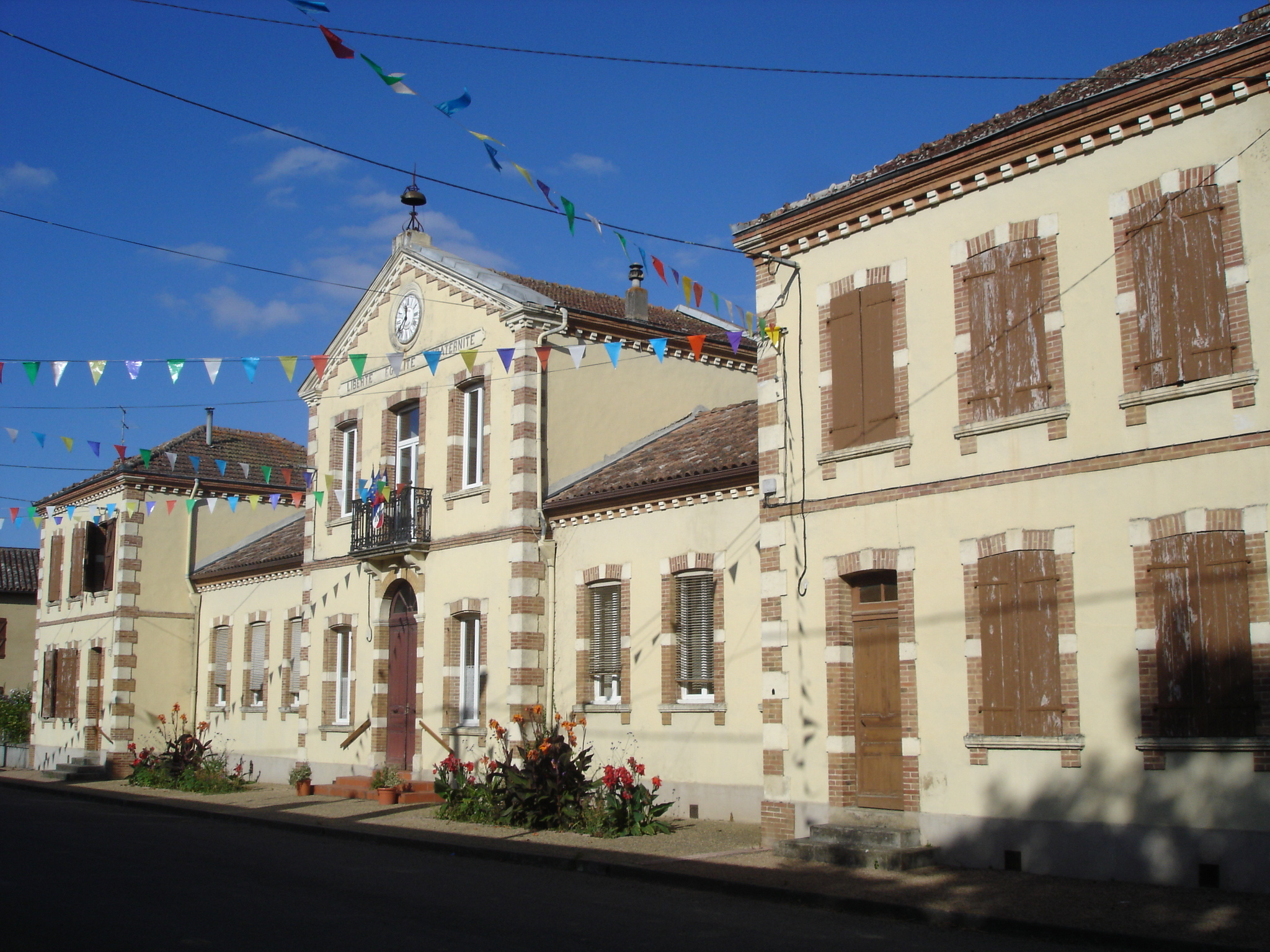 The school and town hall in Saint-Laurent (Haute-Garonne, France).